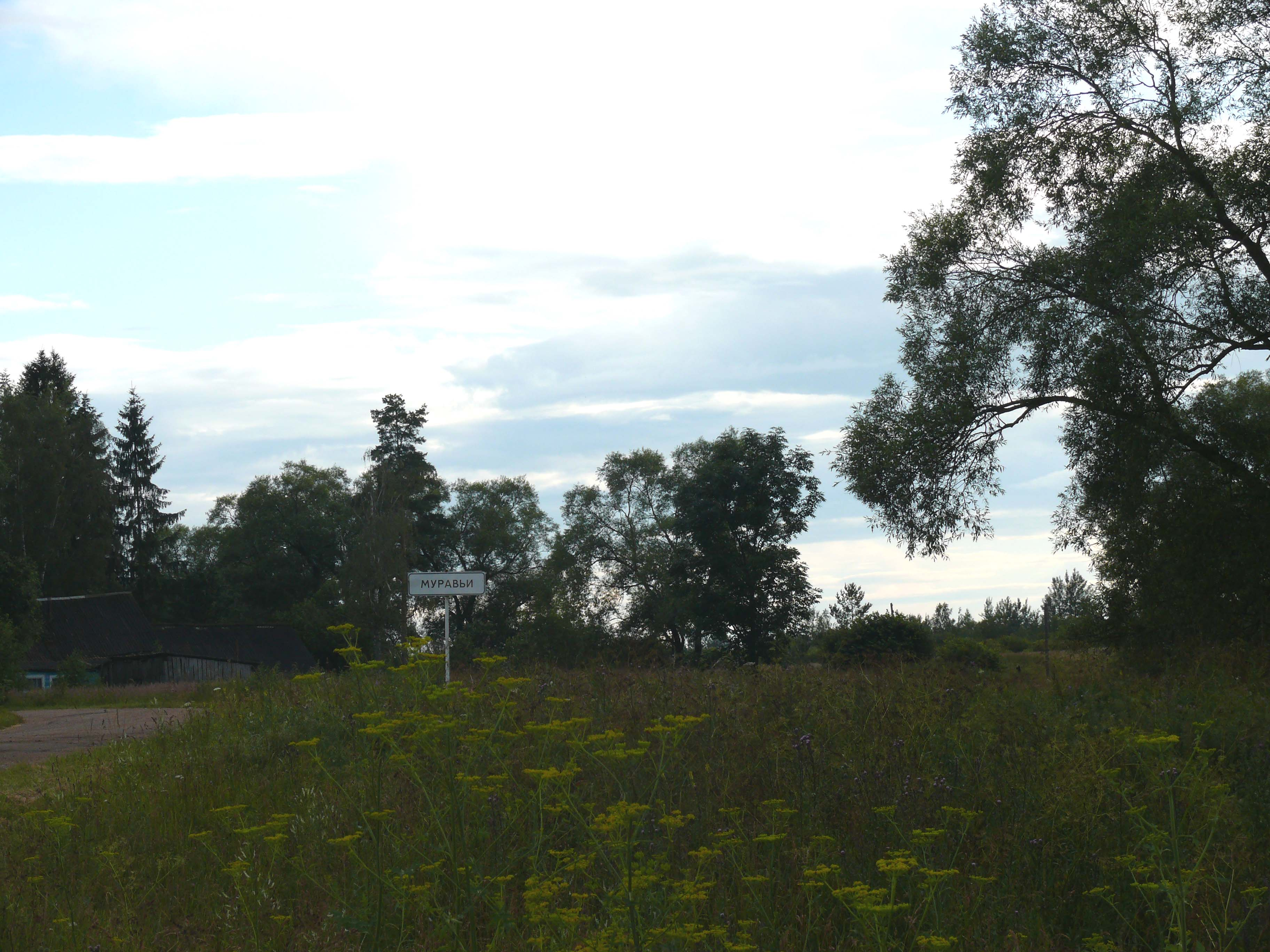 Muravyi village, Shimsky District, Novgorod Oblast, Russia